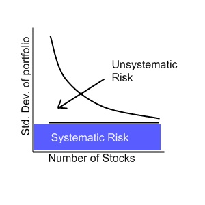 Shows the difference between systematic and unsystematic risk